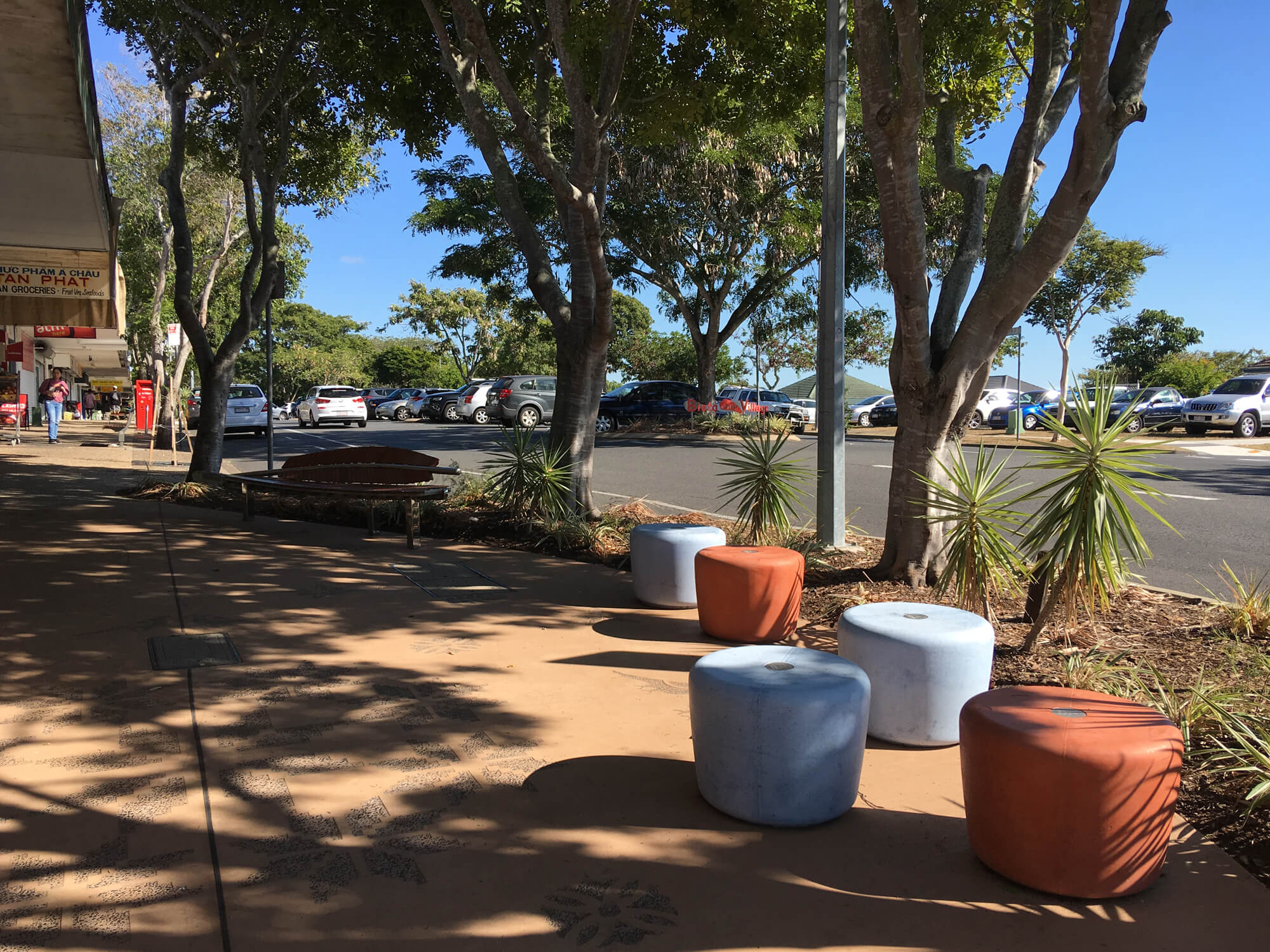 Public space at the shopping precinct on Biota Street in Inala